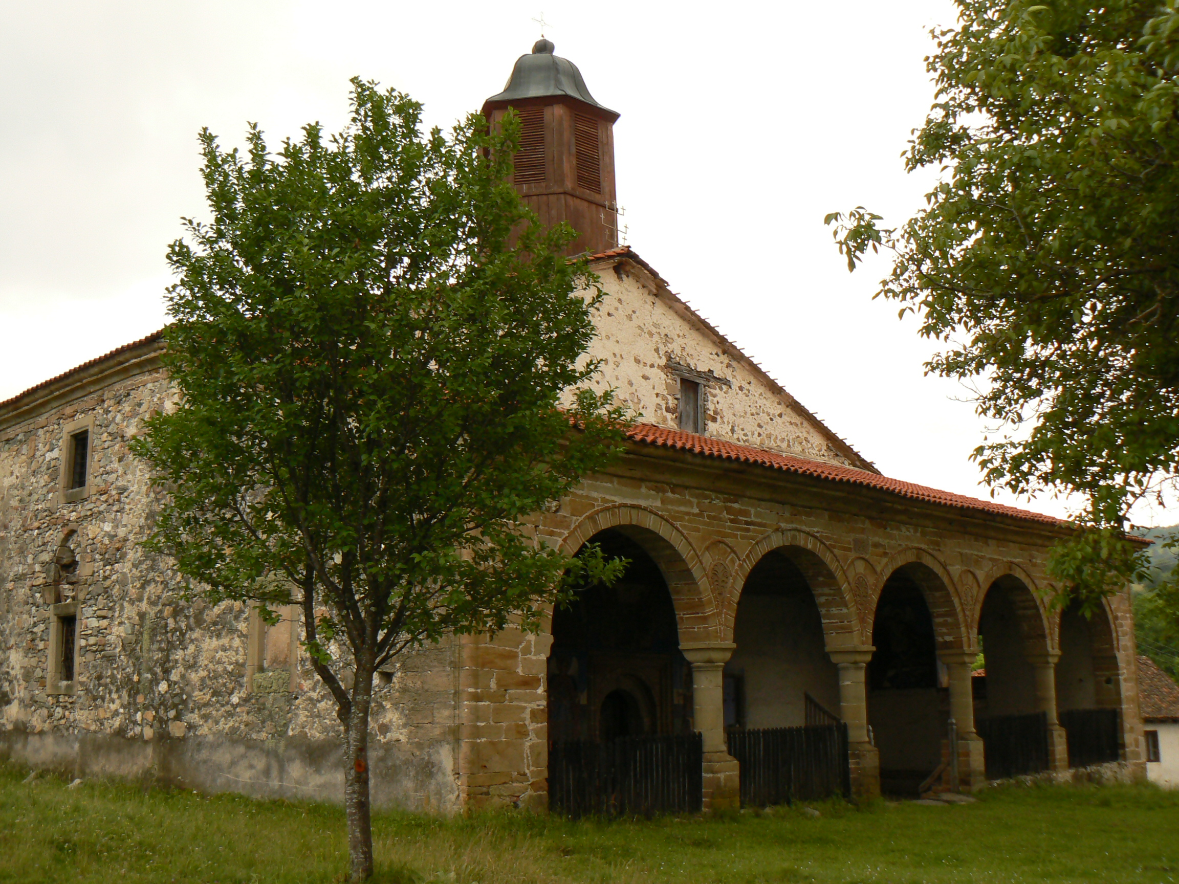 Church in village Izvor, Serbia